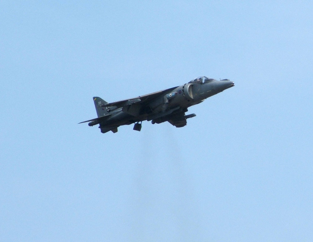 RAF Harrier II GR-7 displaying at the Farnborough Air Show; hovering with smoke from vectored jet visible